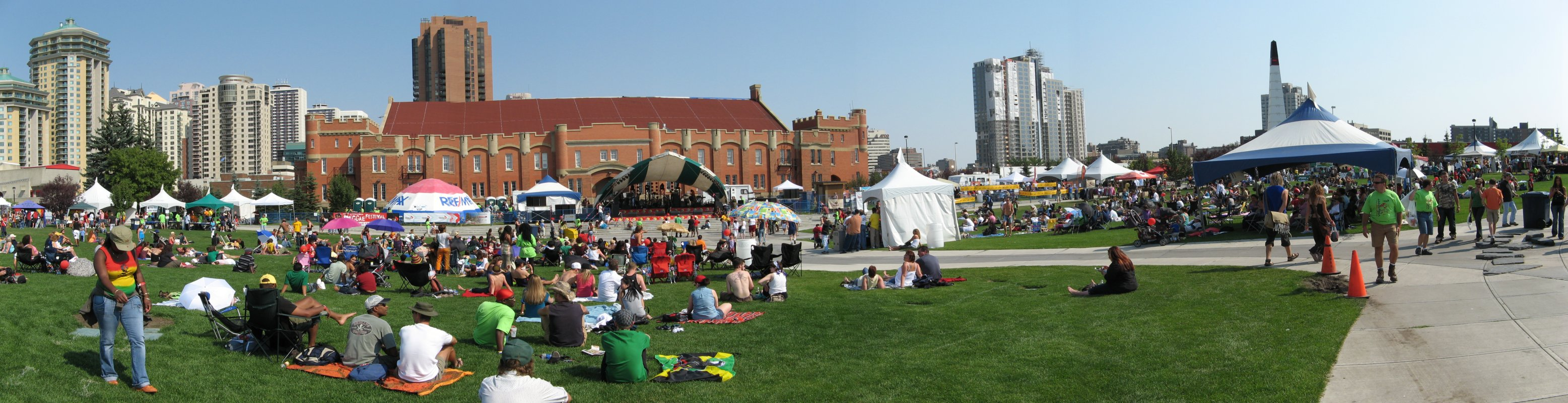 Photos taken by the submittor on a Canon a700 at Calgary International Reggae Fest 2006. Digitally combined into a panoramic. For Wikipedia article: Calgary International Reggae Festival